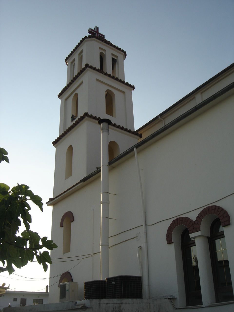 Church of Agioi Anargyroi in Neo Keramidi.